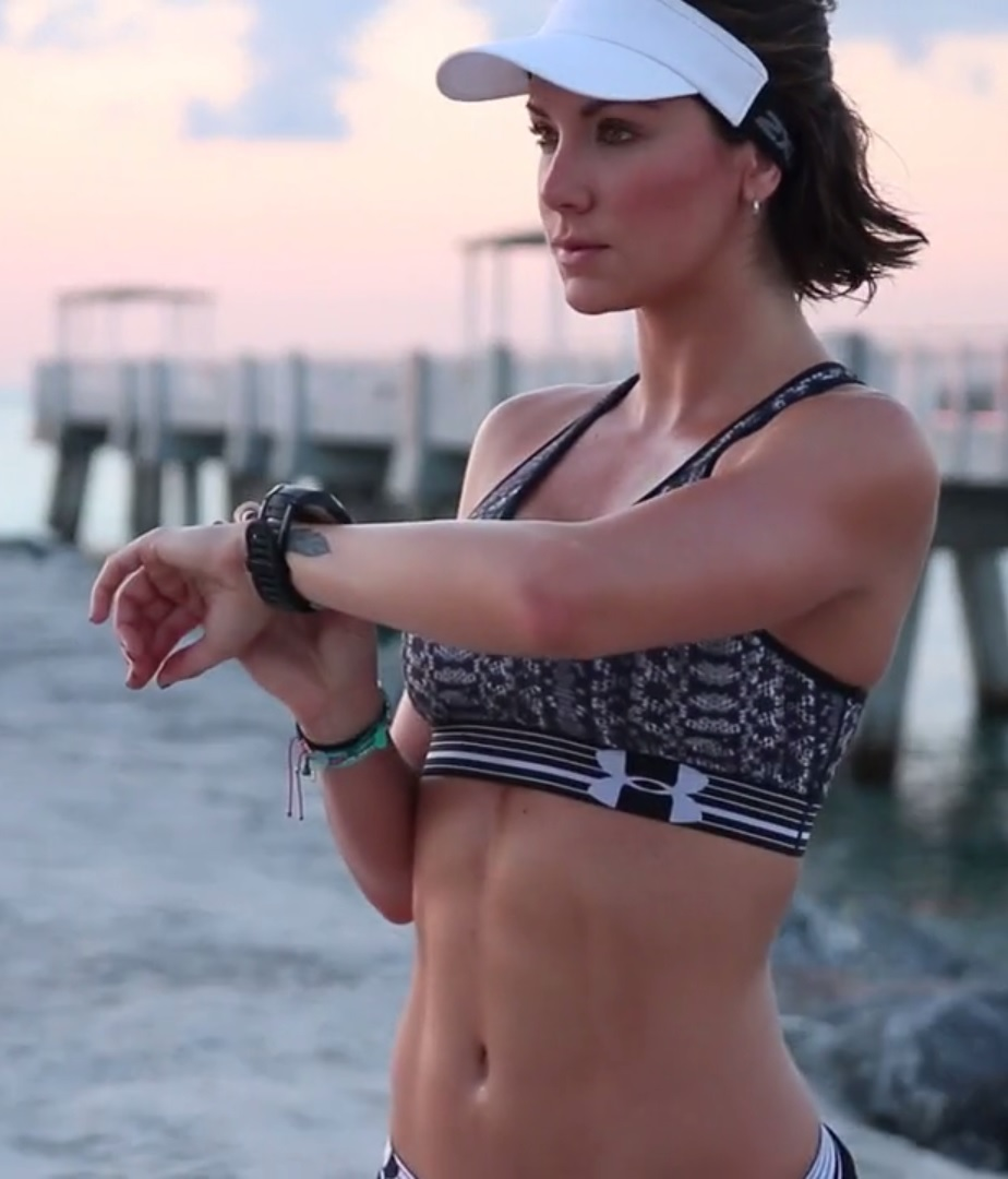 Vanessa Andrea Gonçalves Gómes is a Venezuelan dentist, model and beauty pageant titleholder who was crowned Miss Venezuela 2010. She represented Venezuela at Miss Universe 2011. In this photo she is checking her wristwatch before a run on a pier.